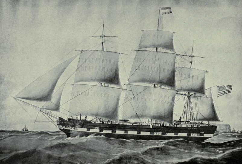 A portrait of the Ship Hope, built by Ezra Weston II of Duxbury, Massachusetts in 1841, printed in 1916 in "In Memoriam: my Father and my Mother, Hon. Gershom Bradford Weston, Deborah Brownell Weston, of Duxbury, Massachusetts"